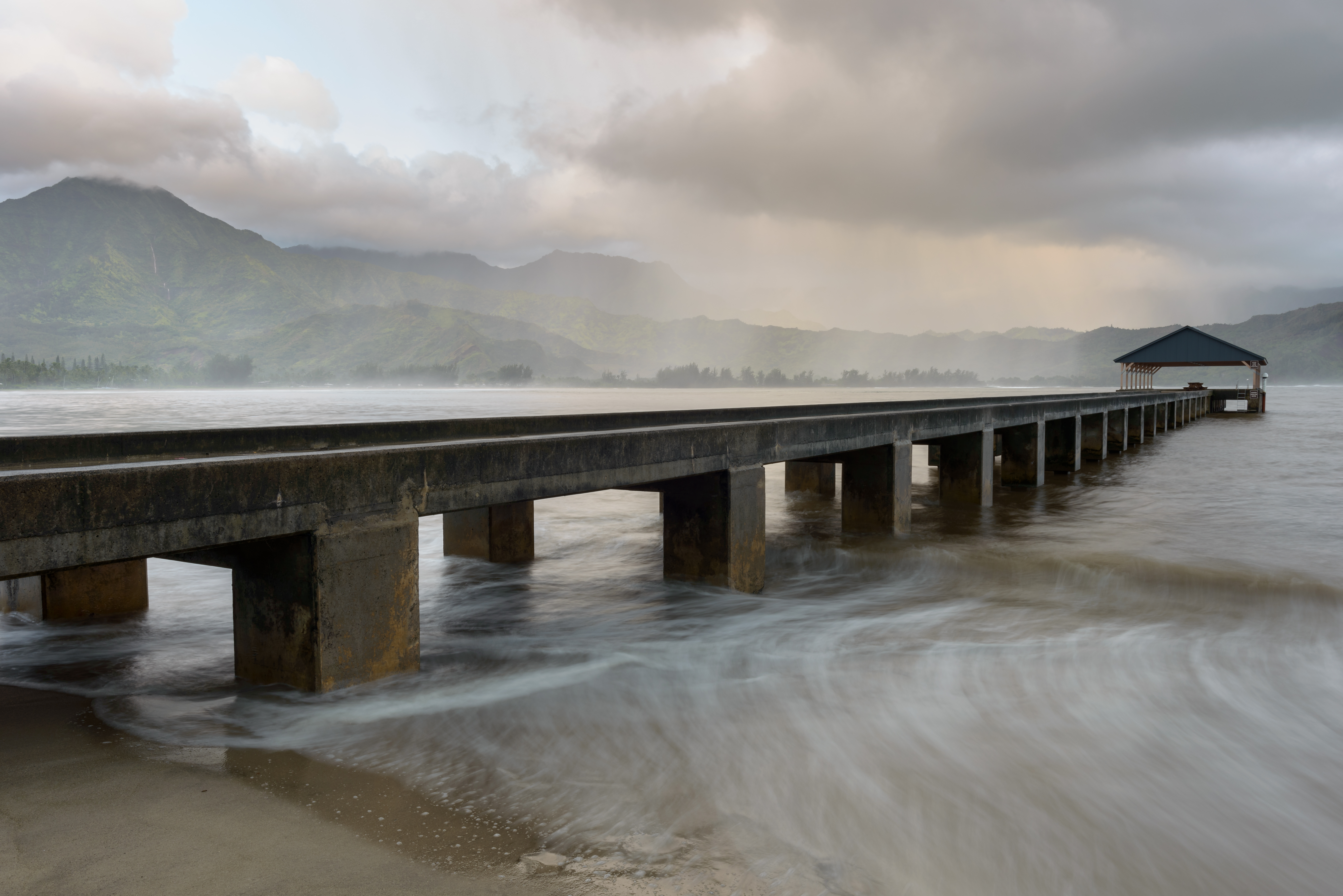 Hanalei Pier in Hanalei Bay, Kauai, Hawaii